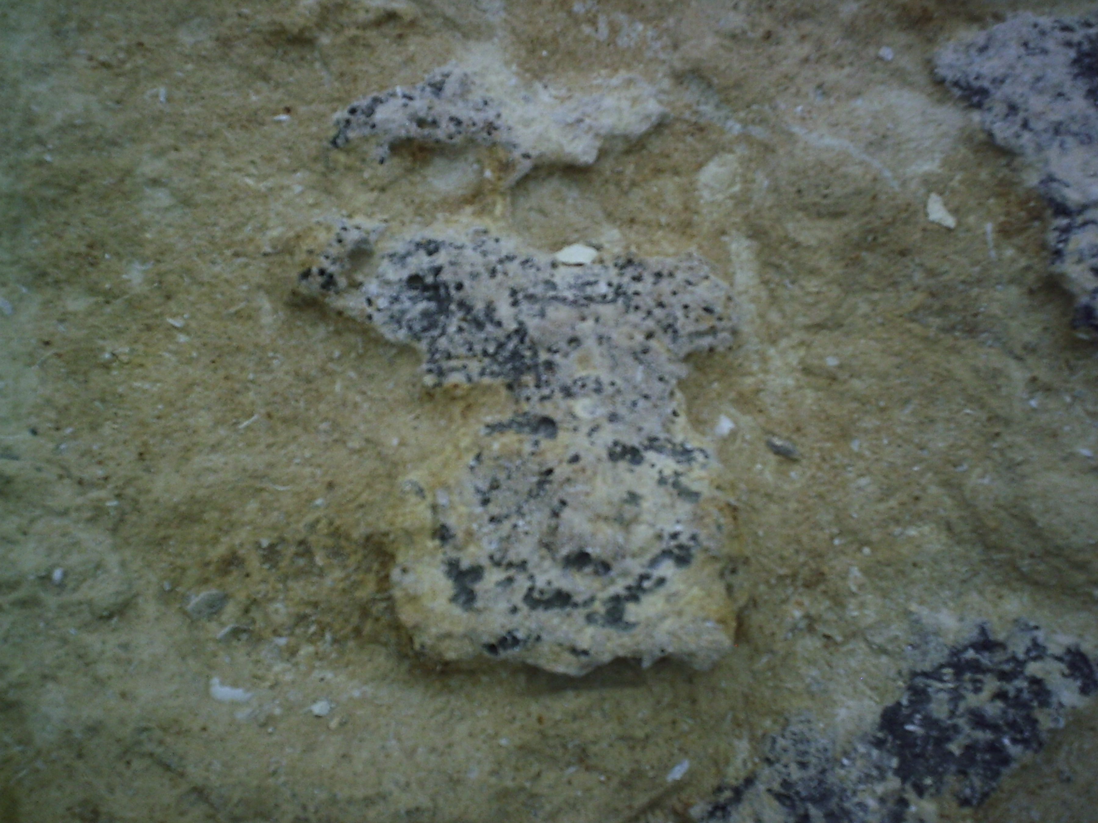 A photo showing a cross in Xlendi.